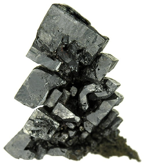 Acanthite Locality: San Juan de Rayas Mine (Rayas Mine; Reyes Mine), Guanajuato, Municipio de Guanajuato, Guanajuato, Mexico (Locality at ) Size: 3.2 x 2.1 x 1.2 cm. A remarkable and classic Acanthite featuring sharp, lustrous, somewhat skeletal metallic silvery colored pseudo-cubic crystals in a gorgeous arborescent formation.